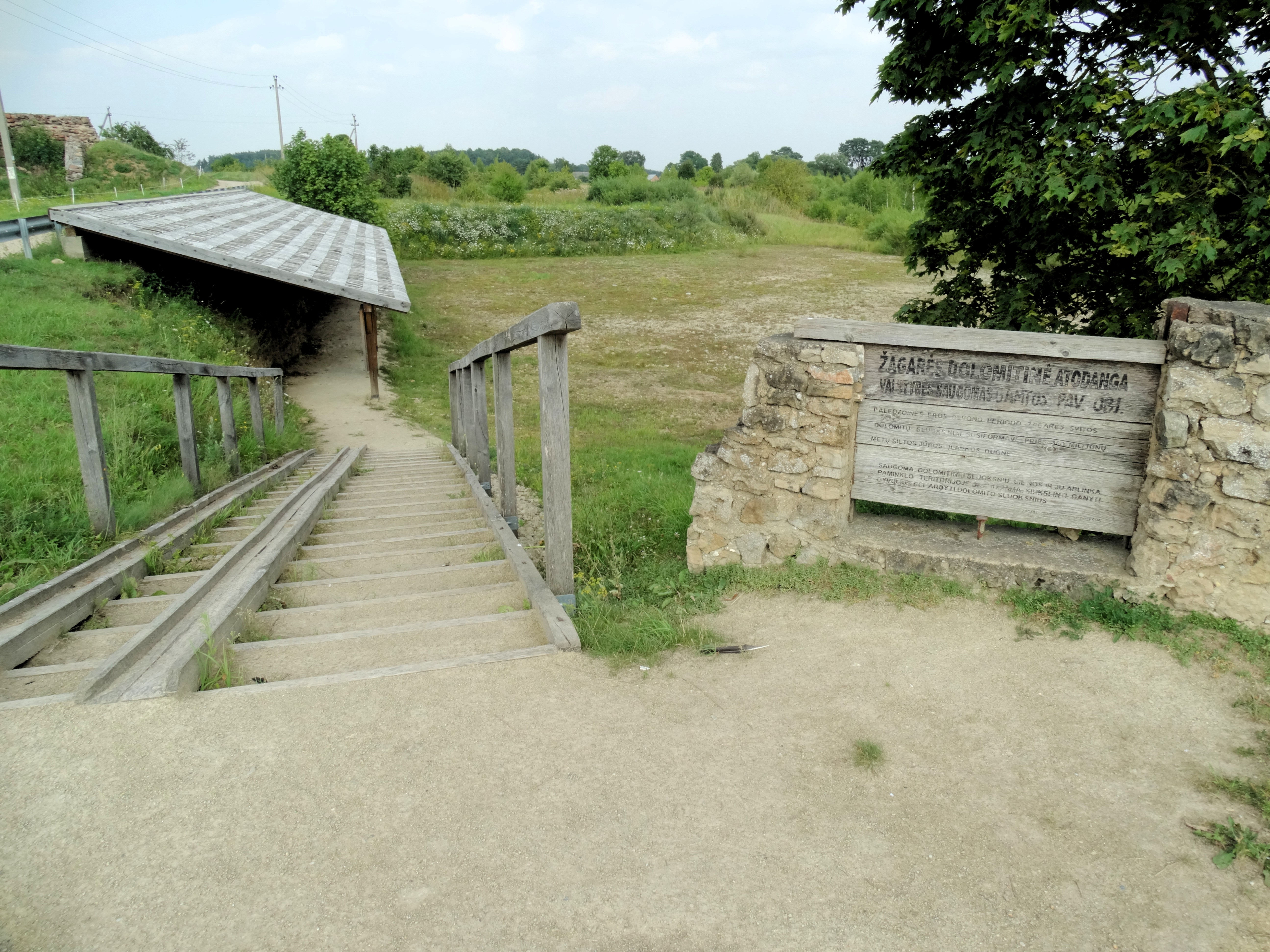 Dolomite outcrop, Žagarė, Lithuania